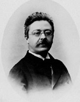 French latin scholar Louis Havet (1849-1925)